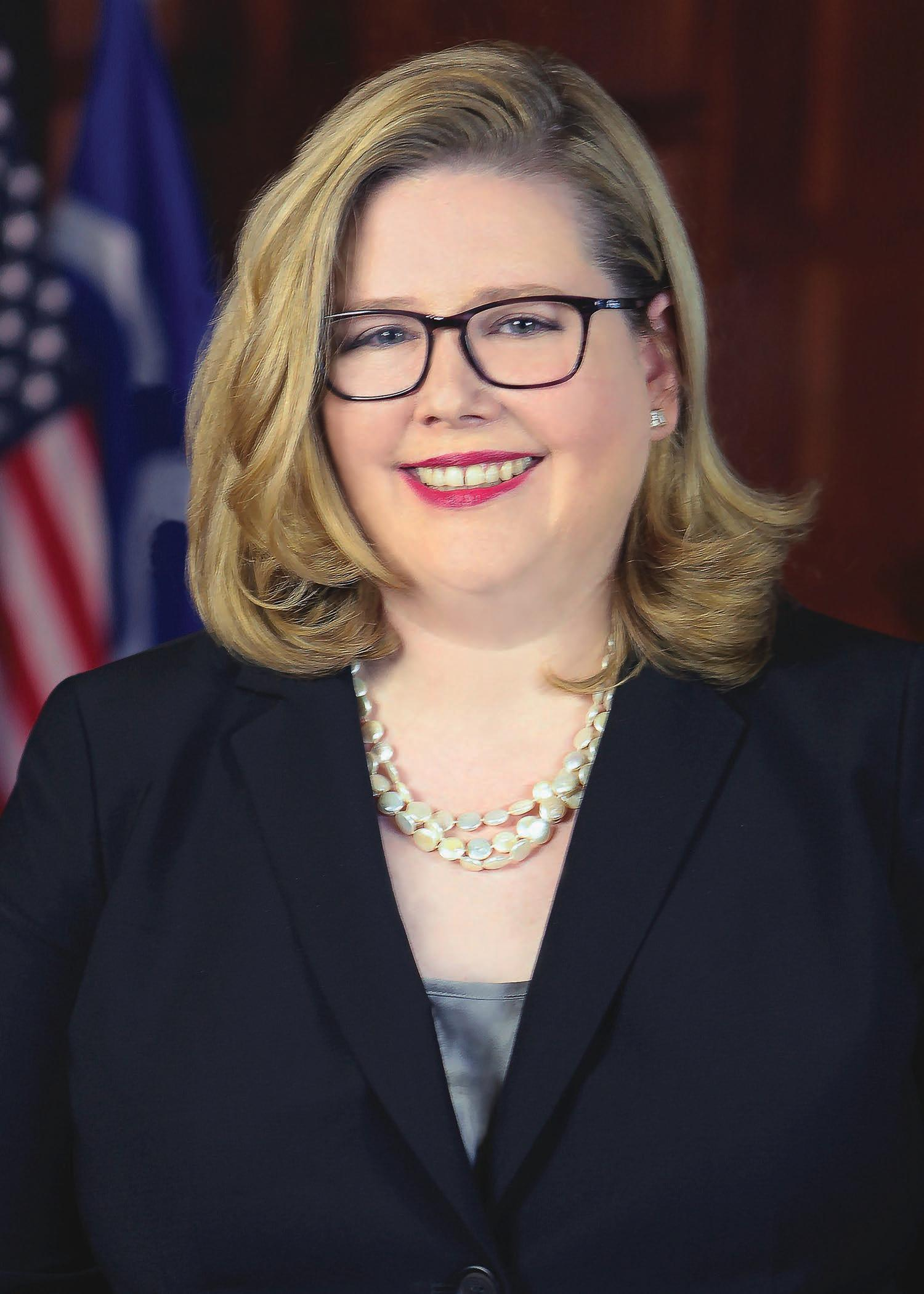 Emily W. Murphy official photo